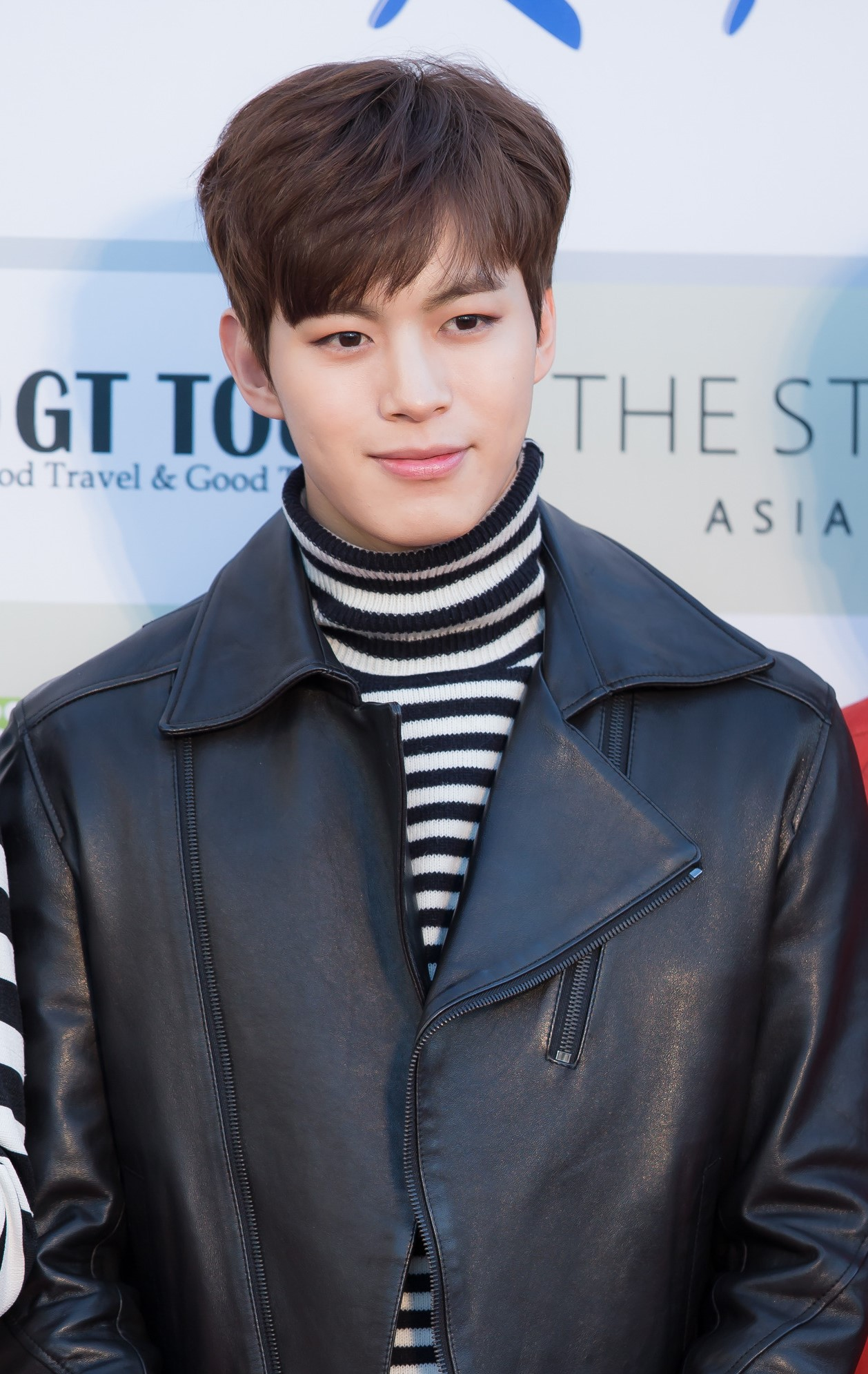 Lee Hong-bin at Gaon Chart K-pop Awards red carpet, on February 17, 2016.